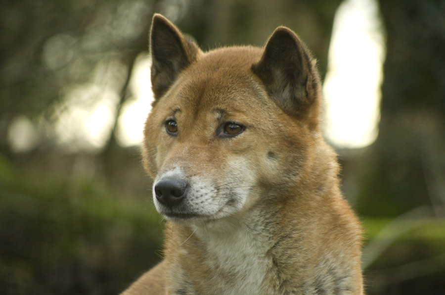 500px provided description: New Guinea singing dog [#dog ,#singing dog ,#New Guinea]